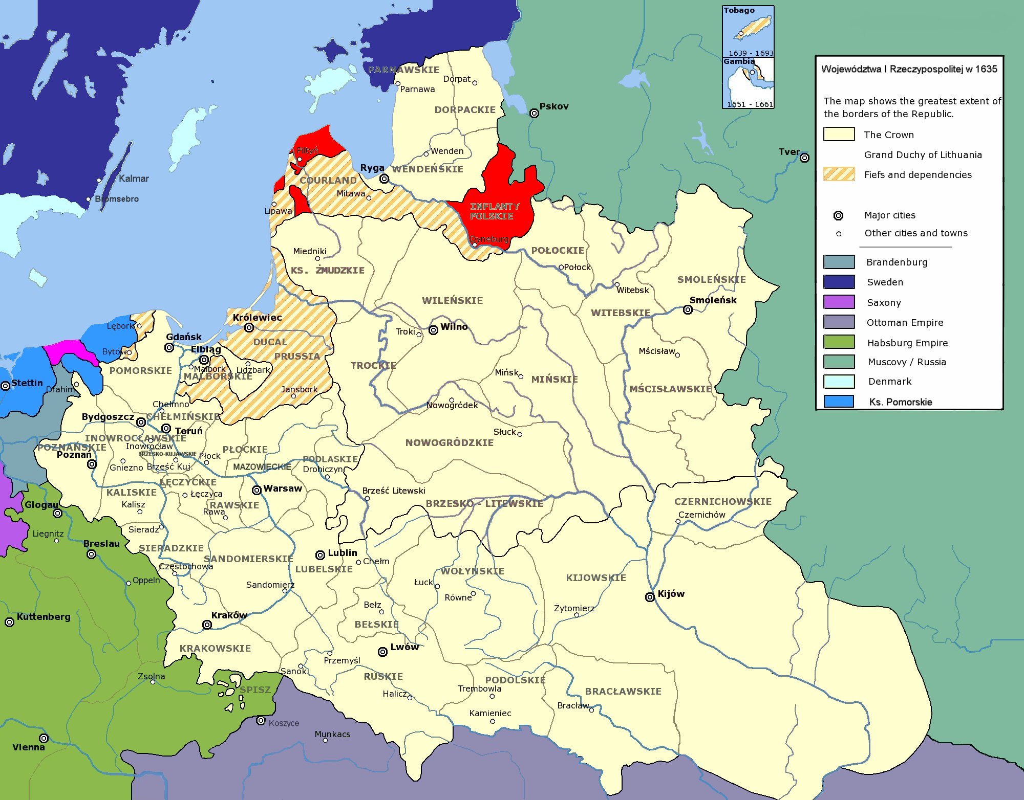 Livlan voivodship of Polish-Lithuanian Commonwealth